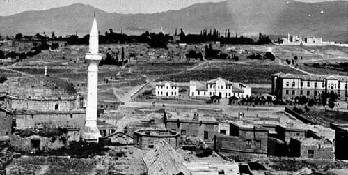 Reproduction of an old picture by me